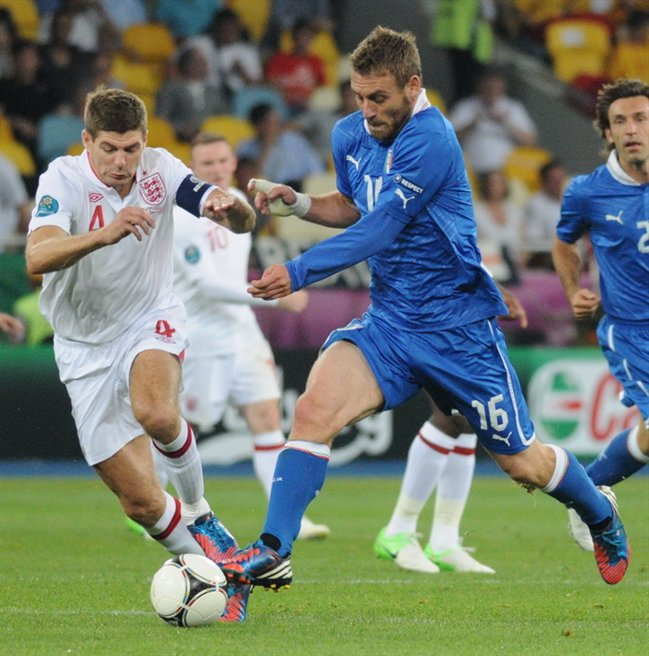 Steven Gerrard and Daniele De Rossi at Euro 2012 match England-Italy